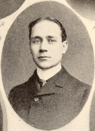 Portrait of New York assemblyman Fred W. Hammond